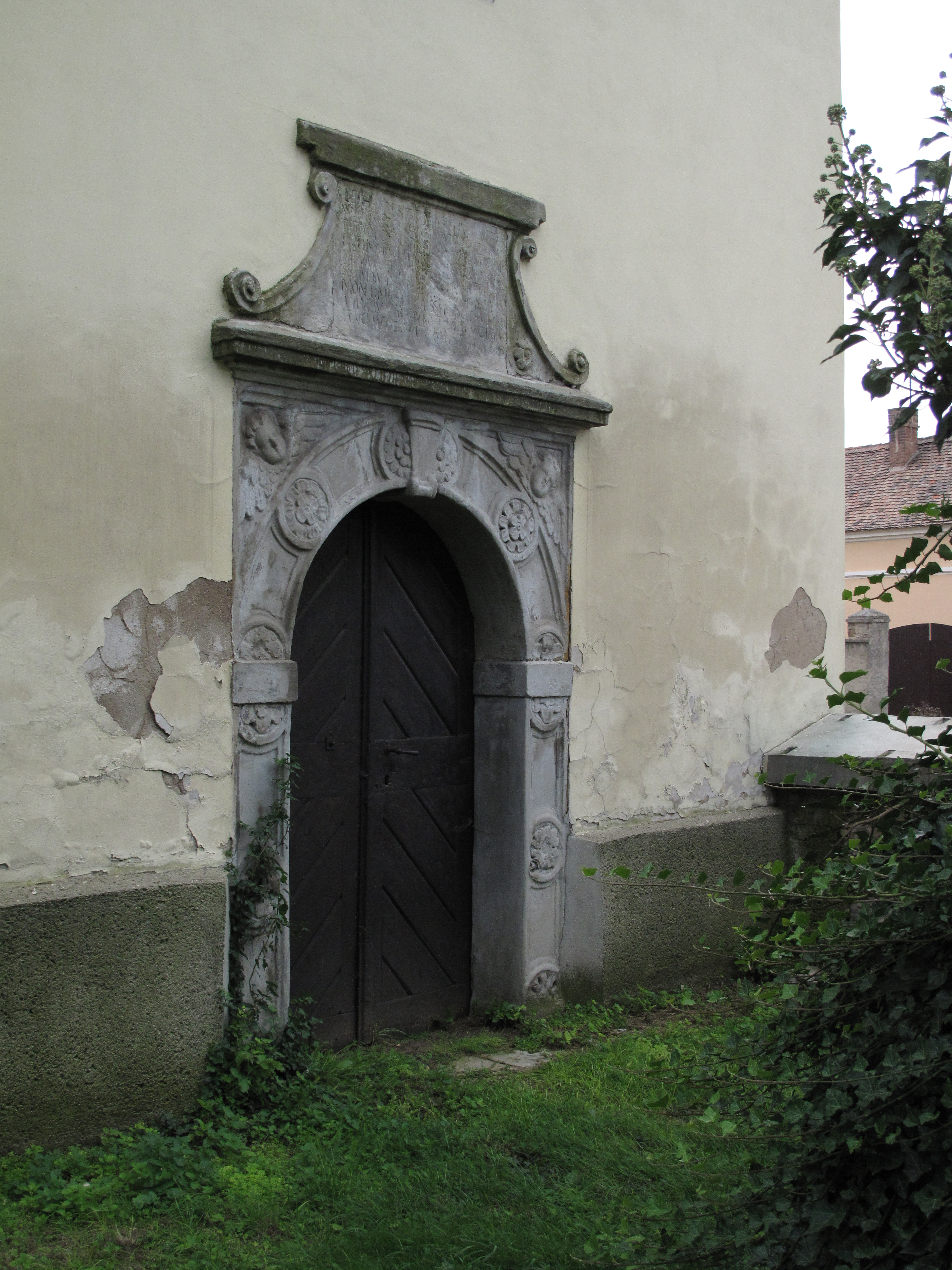 Portal to the Church of St. John of the Nepomuk in Slatina village, Litoměřice District, Czech Republic.